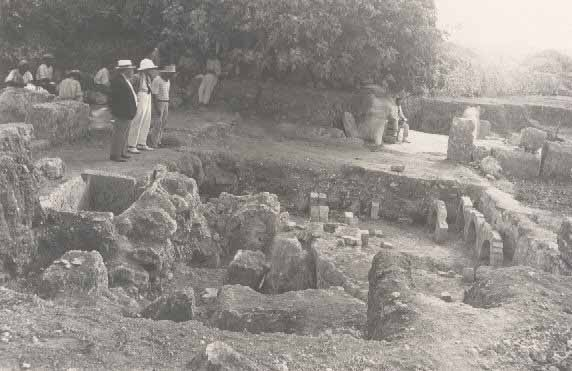 Excavation work at Għajn Tuffieħa, Malta.